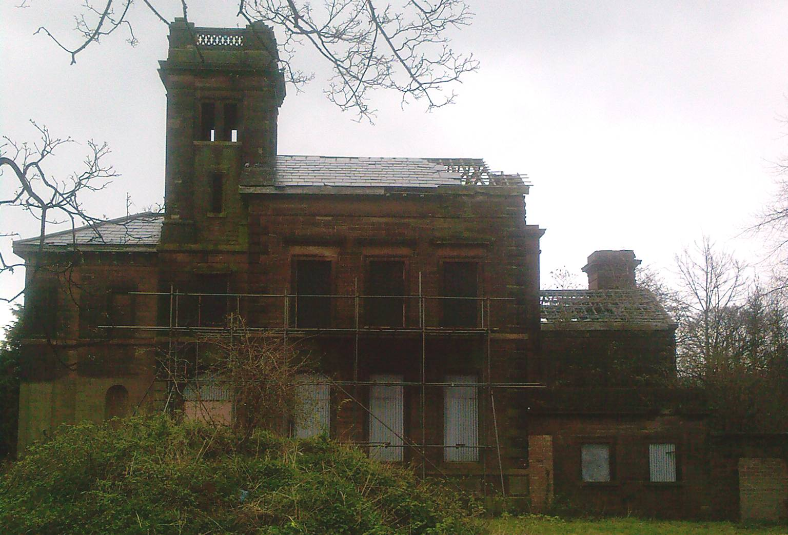 Gwalia